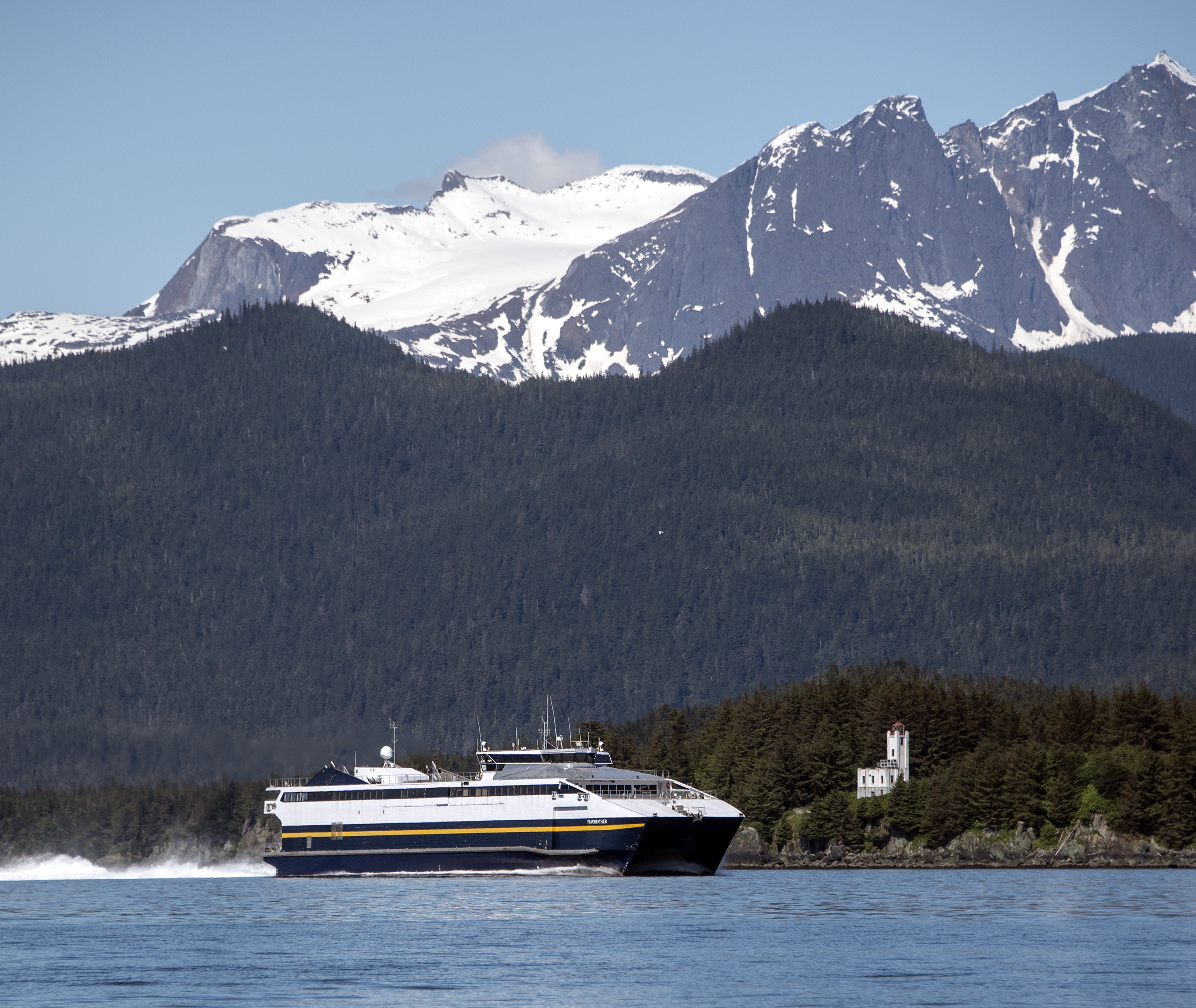 Alaska Marine Highway fast ferry m/v Fairweather passing Sentinel Island Lighthouse heading to Auke Bay Terminal - Southeast Alaska.